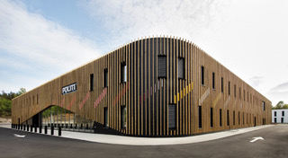 Lundebrekke_PolitihusetArendal: skal krediteres fotografen Trond A. Isaksen